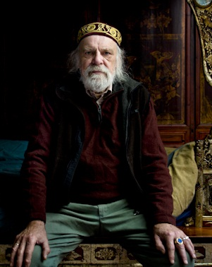 Neil Oram, London Fields, Hackney, Oct 2010. Photo by Sean Pollock.